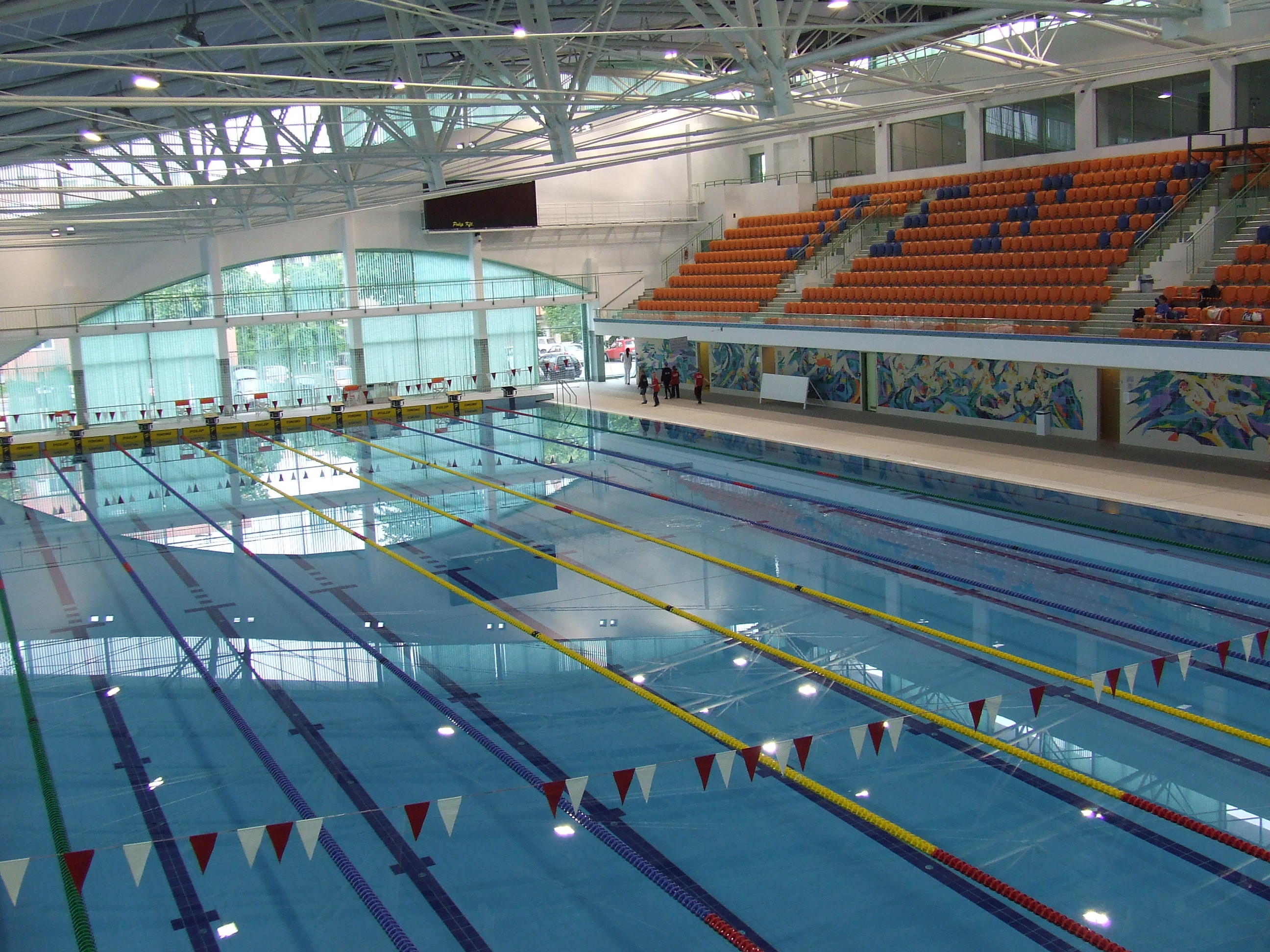 Debreceni Sportuszoda (Competition Pool of Debrecen), interior